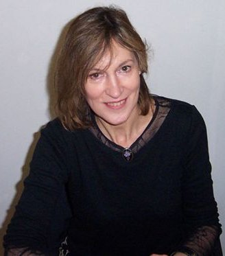 British actress Jan Chappel, who plays "Cally" in the television program Blake's 7, at the Blake's 7 Series 2 DVD launch.